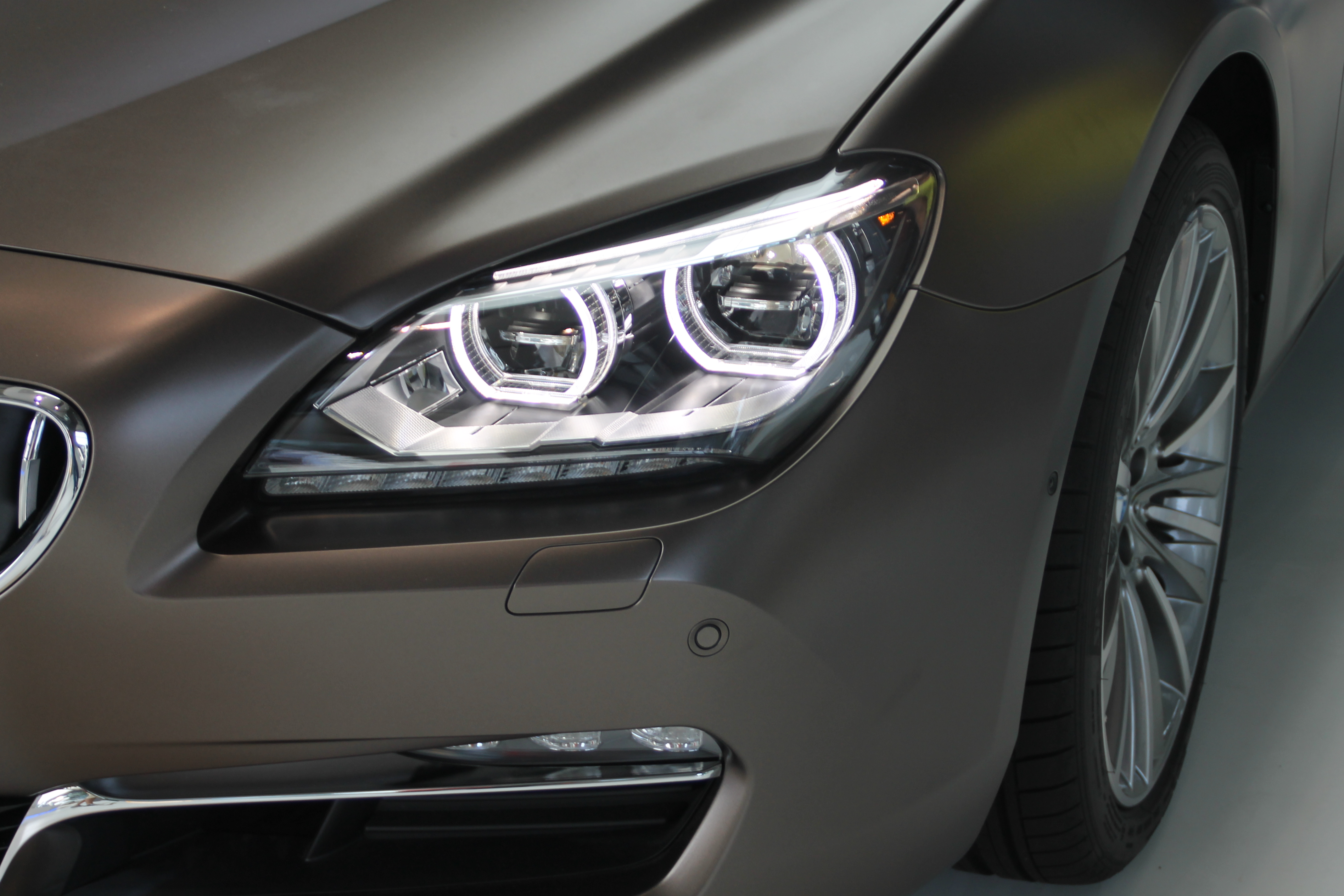 Illuminated LED/Xenon headlamp of a BMW F06 Gran Coupe in the BMW Welt in Munich, 23 September 2012.